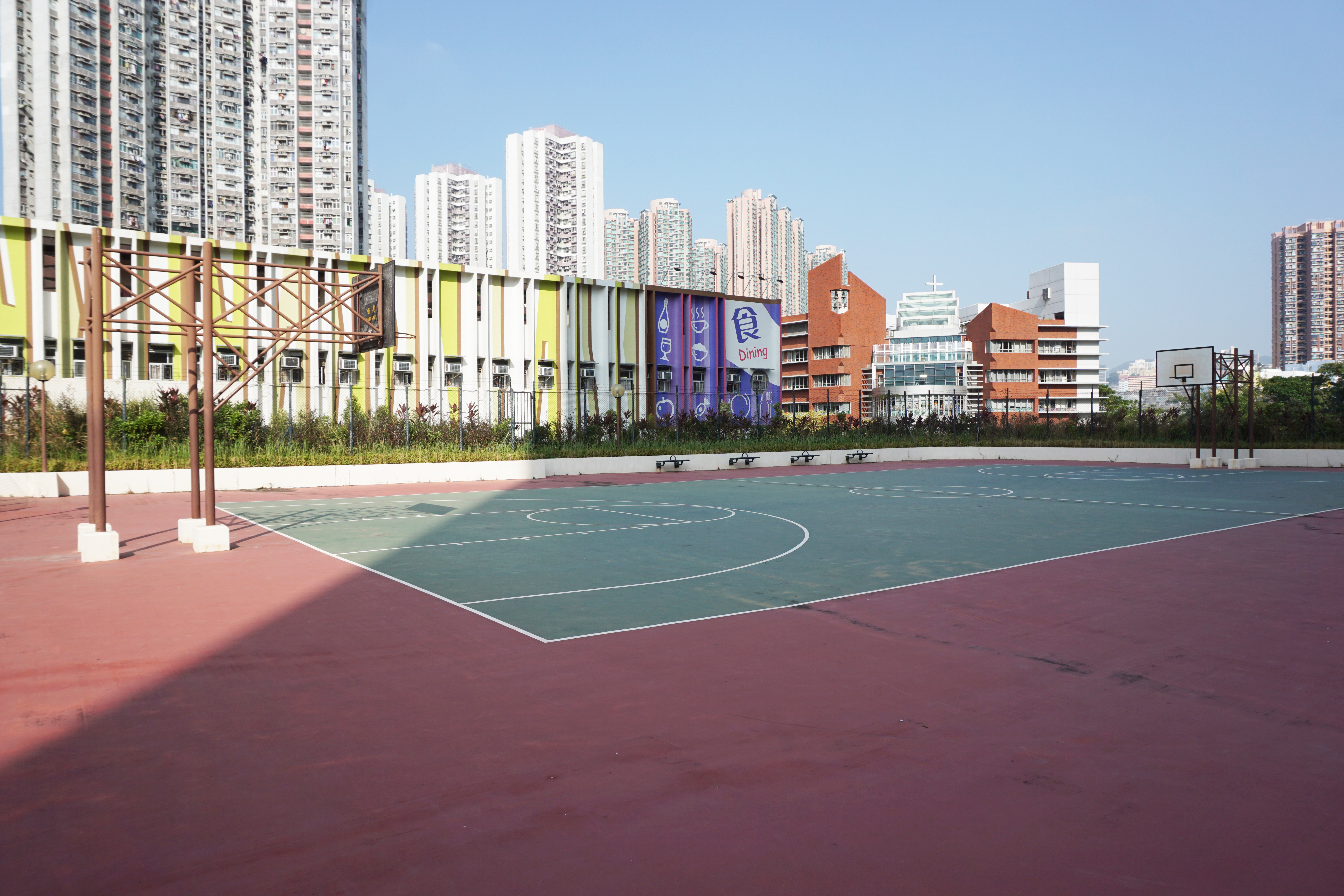 Tsing Yi Estate in Tsing Yi, Hong Kong.